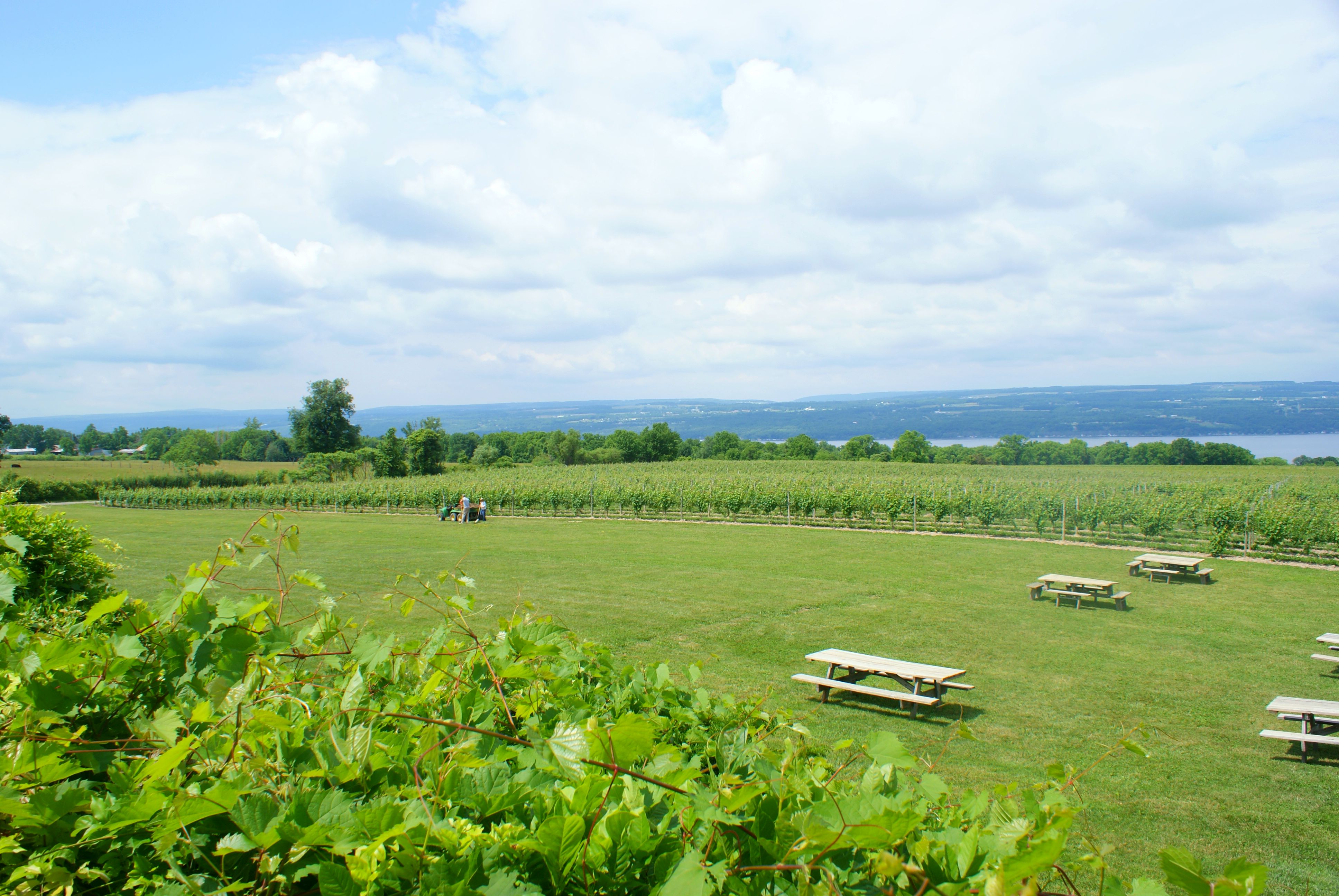 Vineyards in the Seneca Lake AVA, viewed from the back porch of Wagner Vineyards